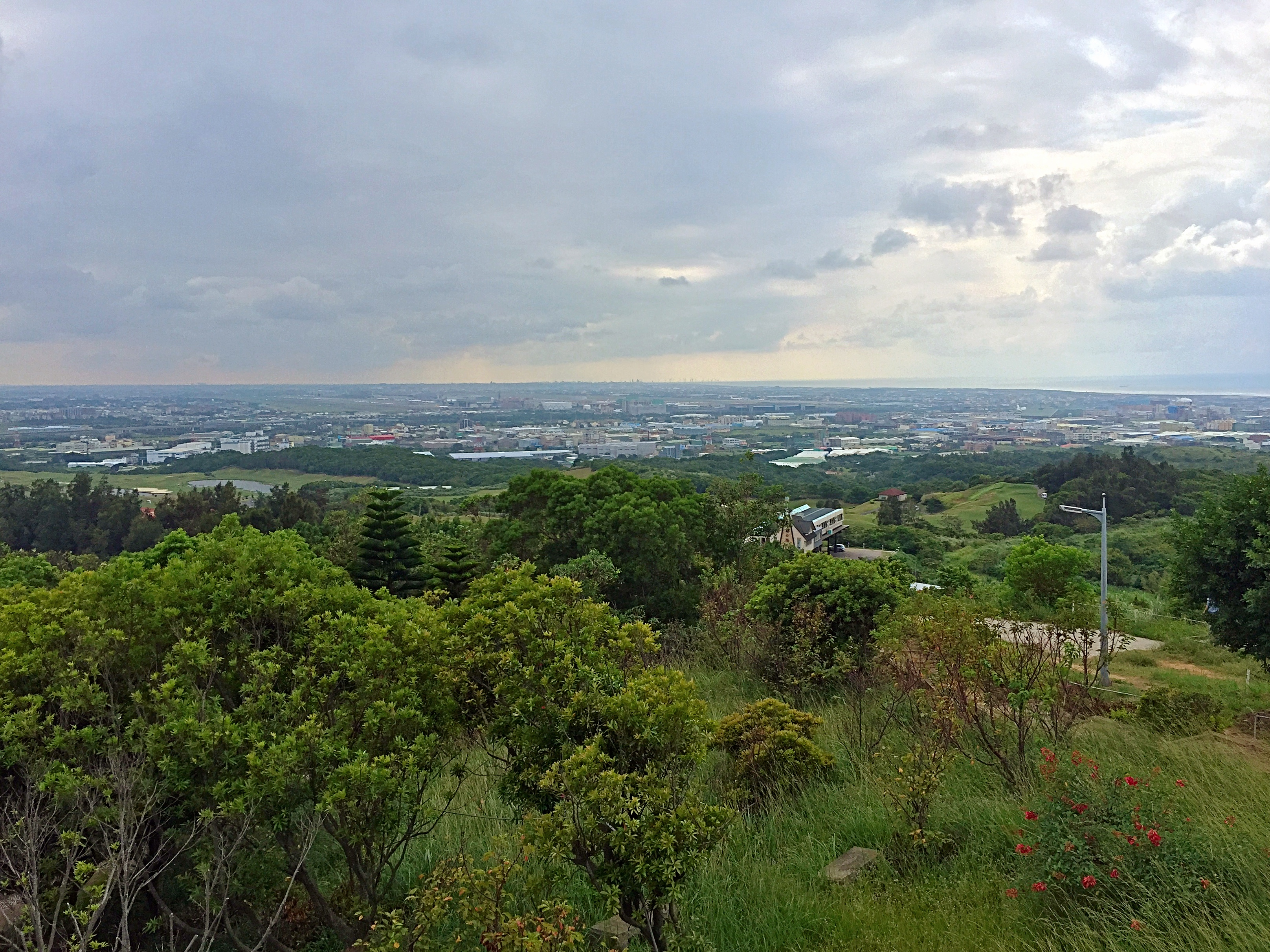 View over the Taoyuan Plateau.